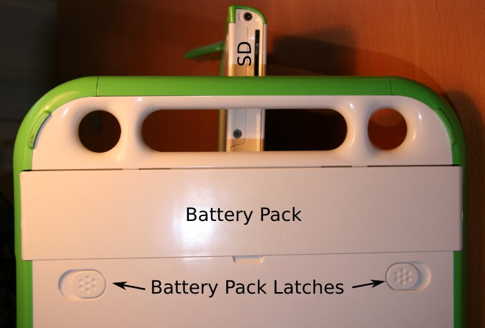 bottom of 100 dollar laptop